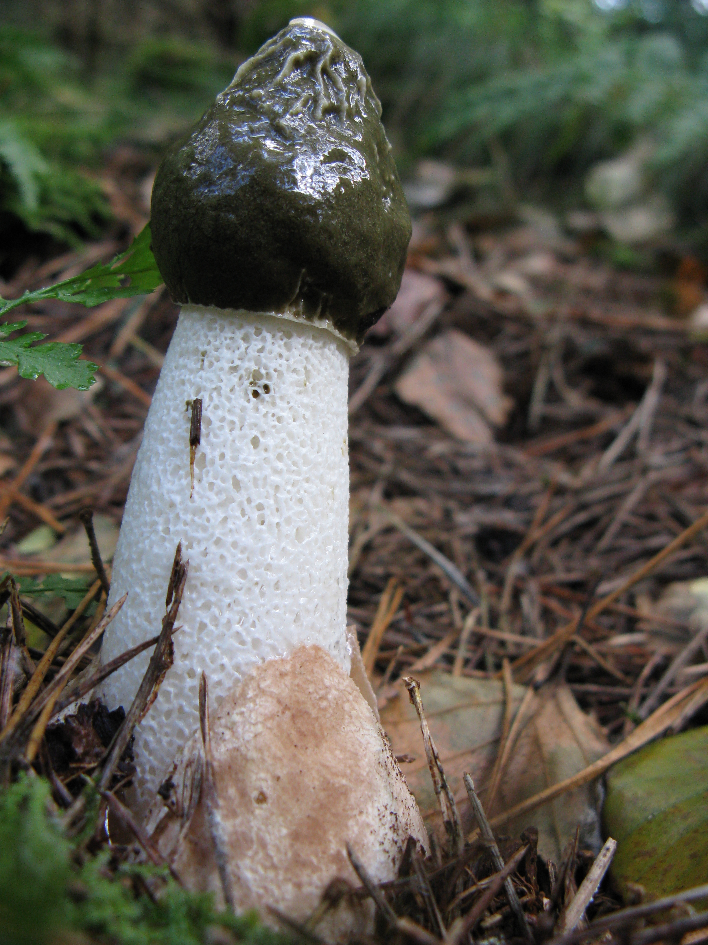 Common stinkhorn (Phallus impudicus)